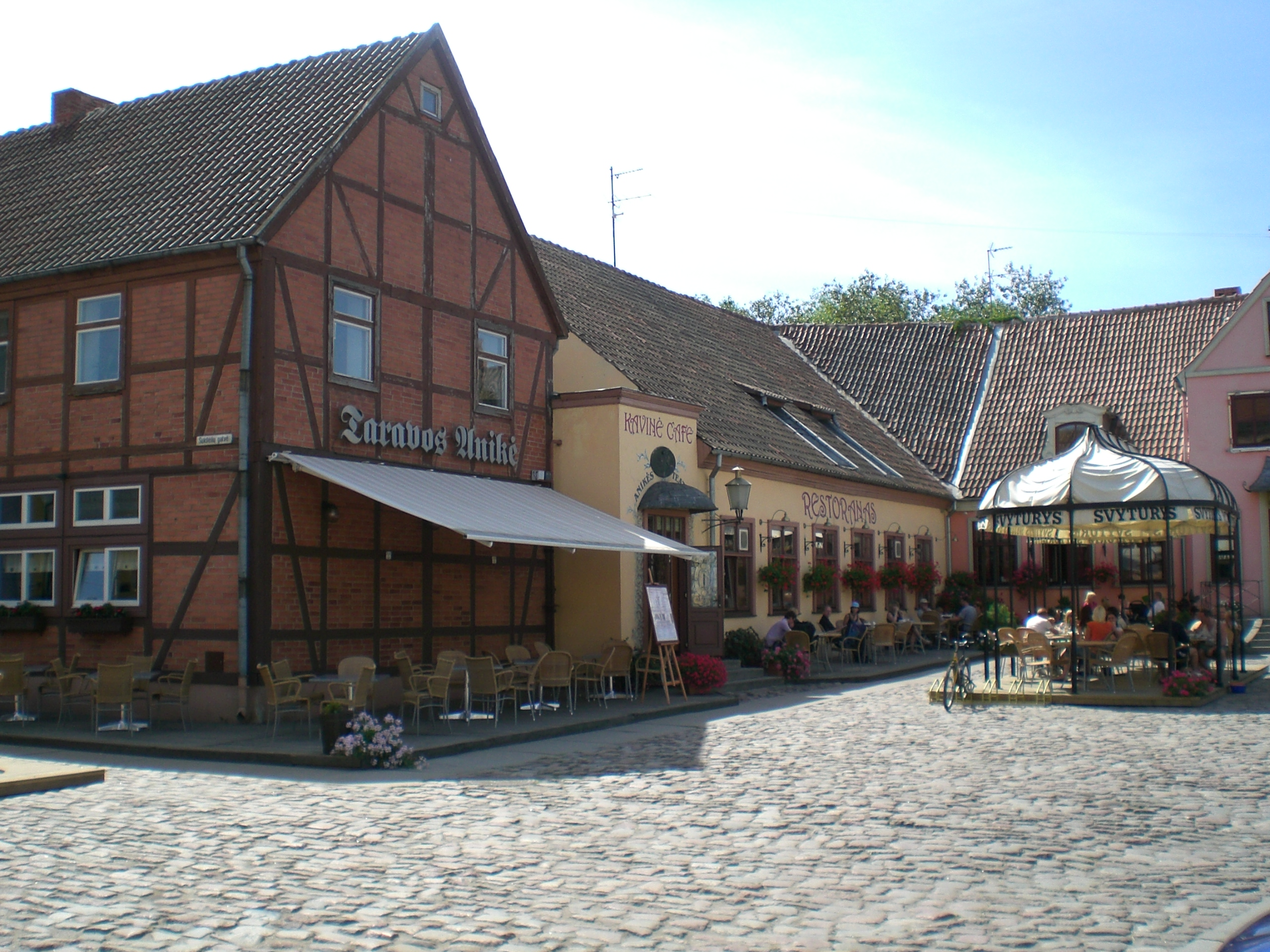 Theatre square (teatros aikštė) in Klaipėda, Lithuania